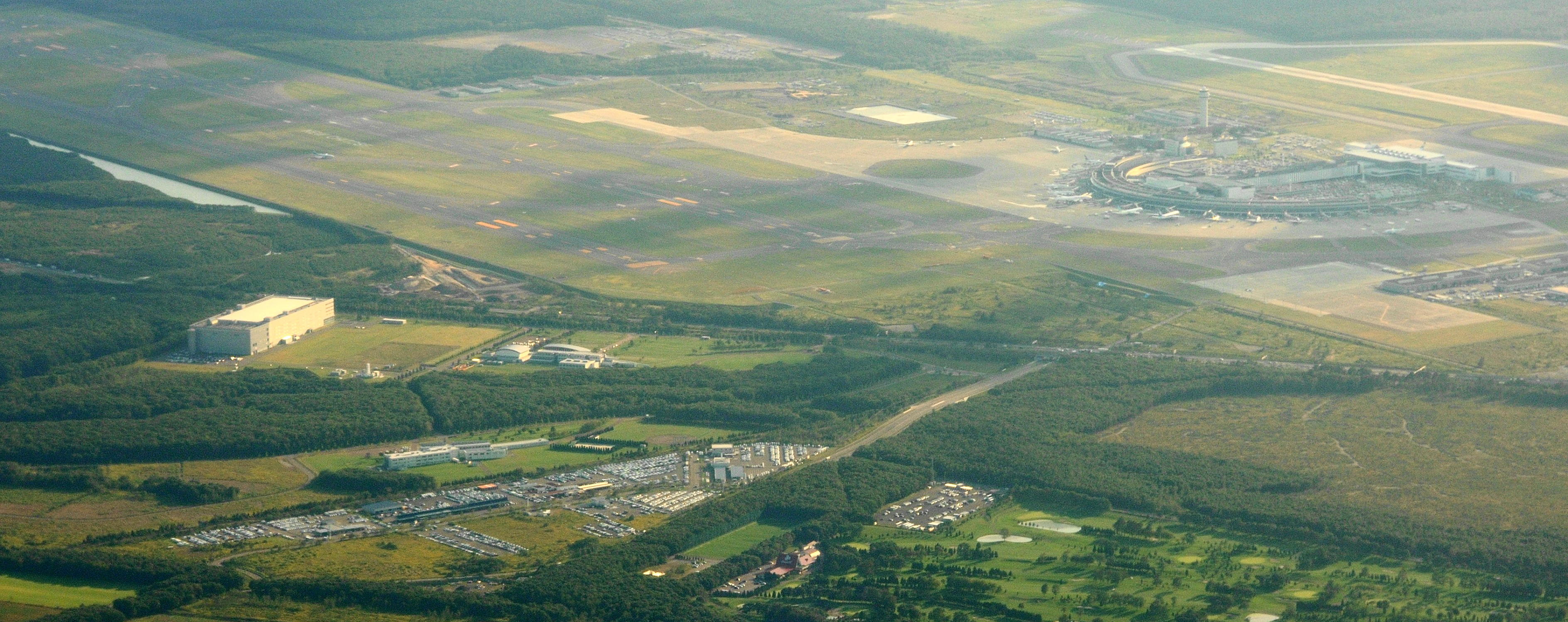 New Chitose airport from the sky,Hokkaido prefecture,Japan